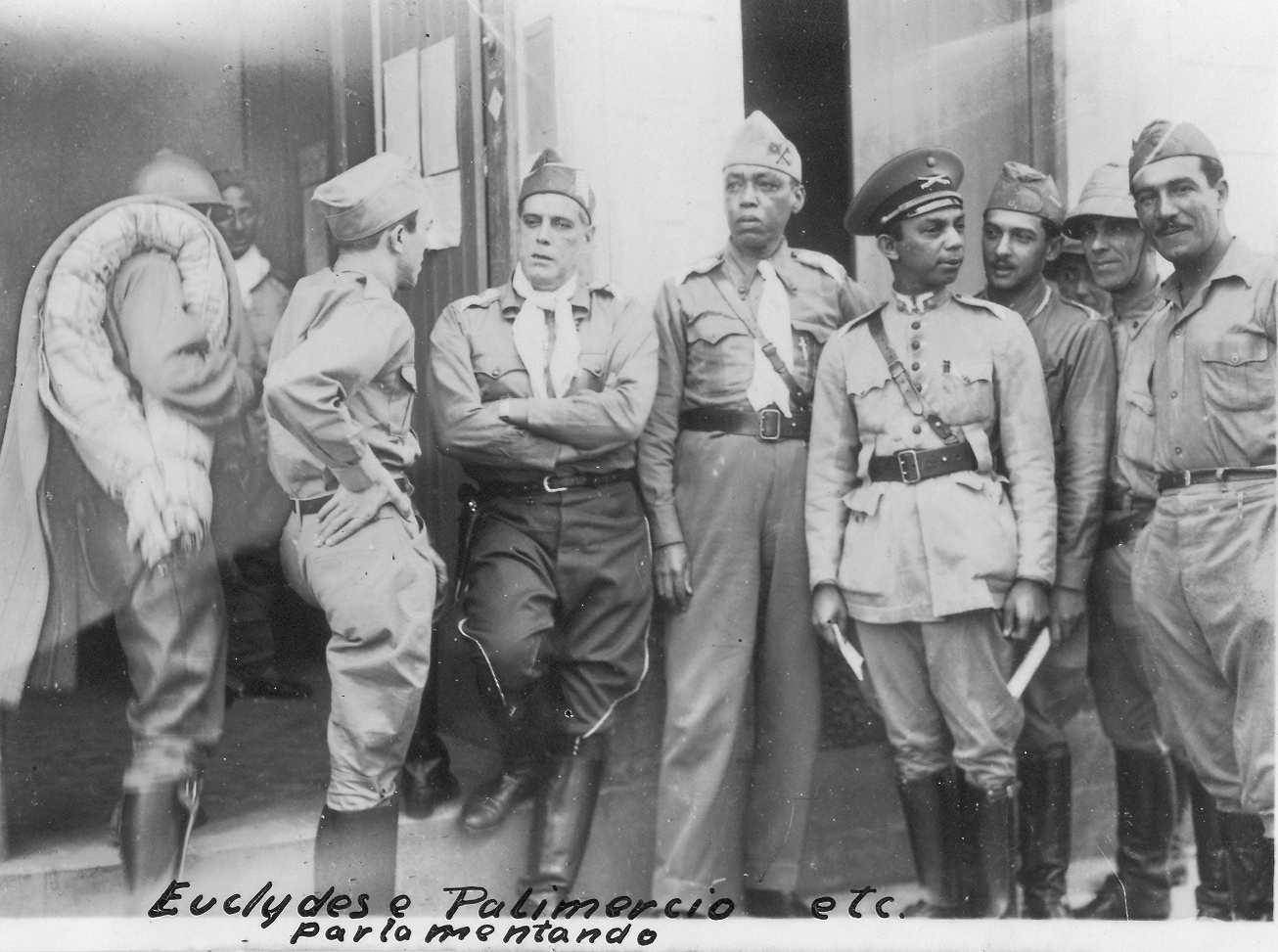 General Euclides Figueiredo, captain Polimércio Rezende and others